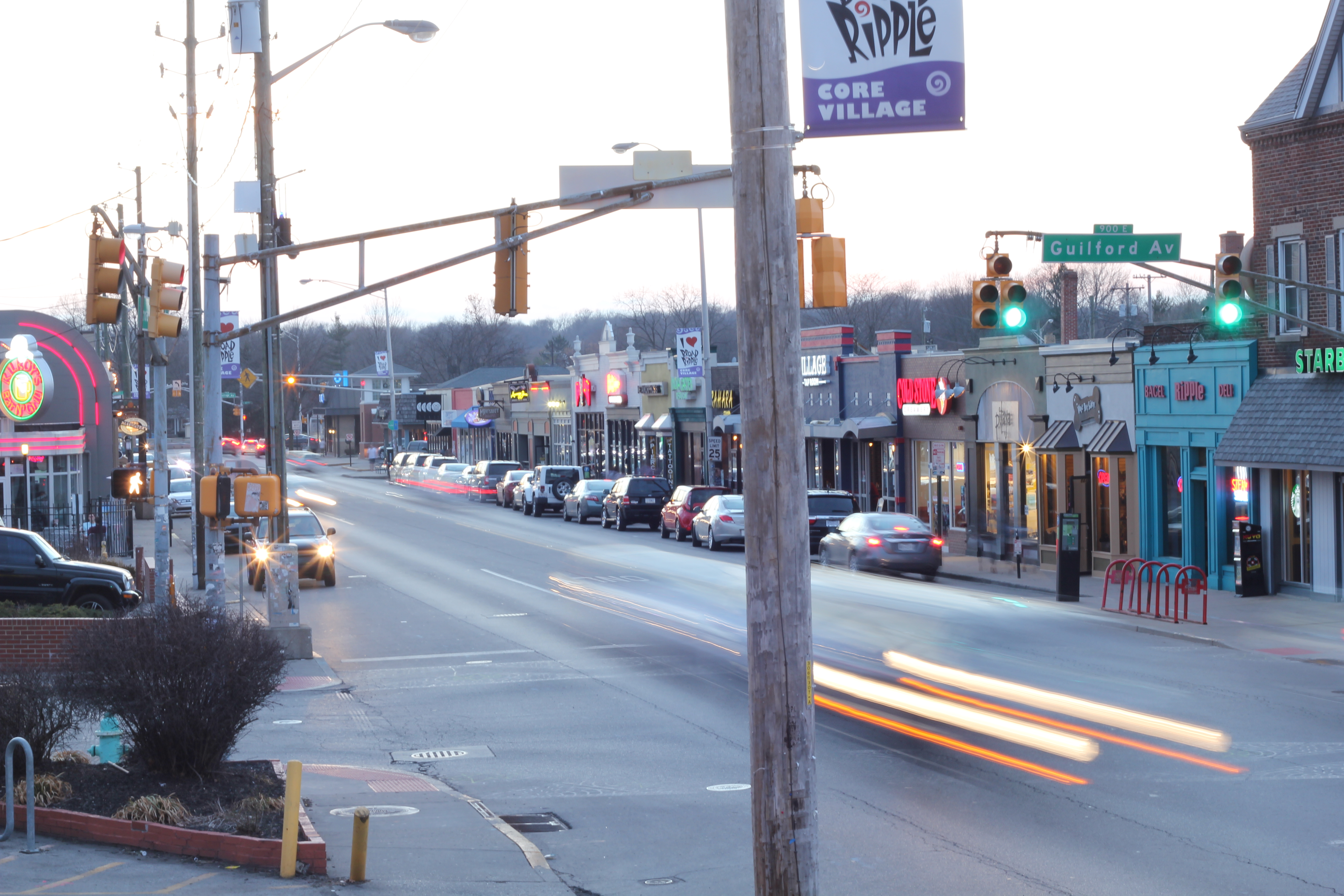 broad ripple, indy. main drag